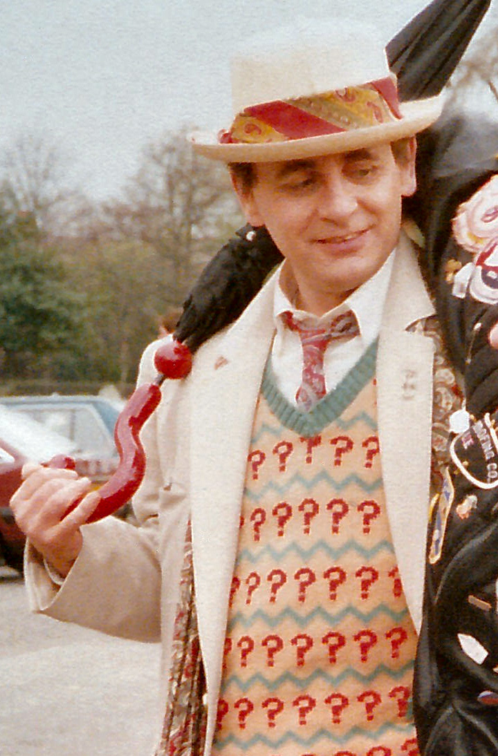 Sylvester McCoy and Sophie Aldred on location for Remembrance of the Daleks